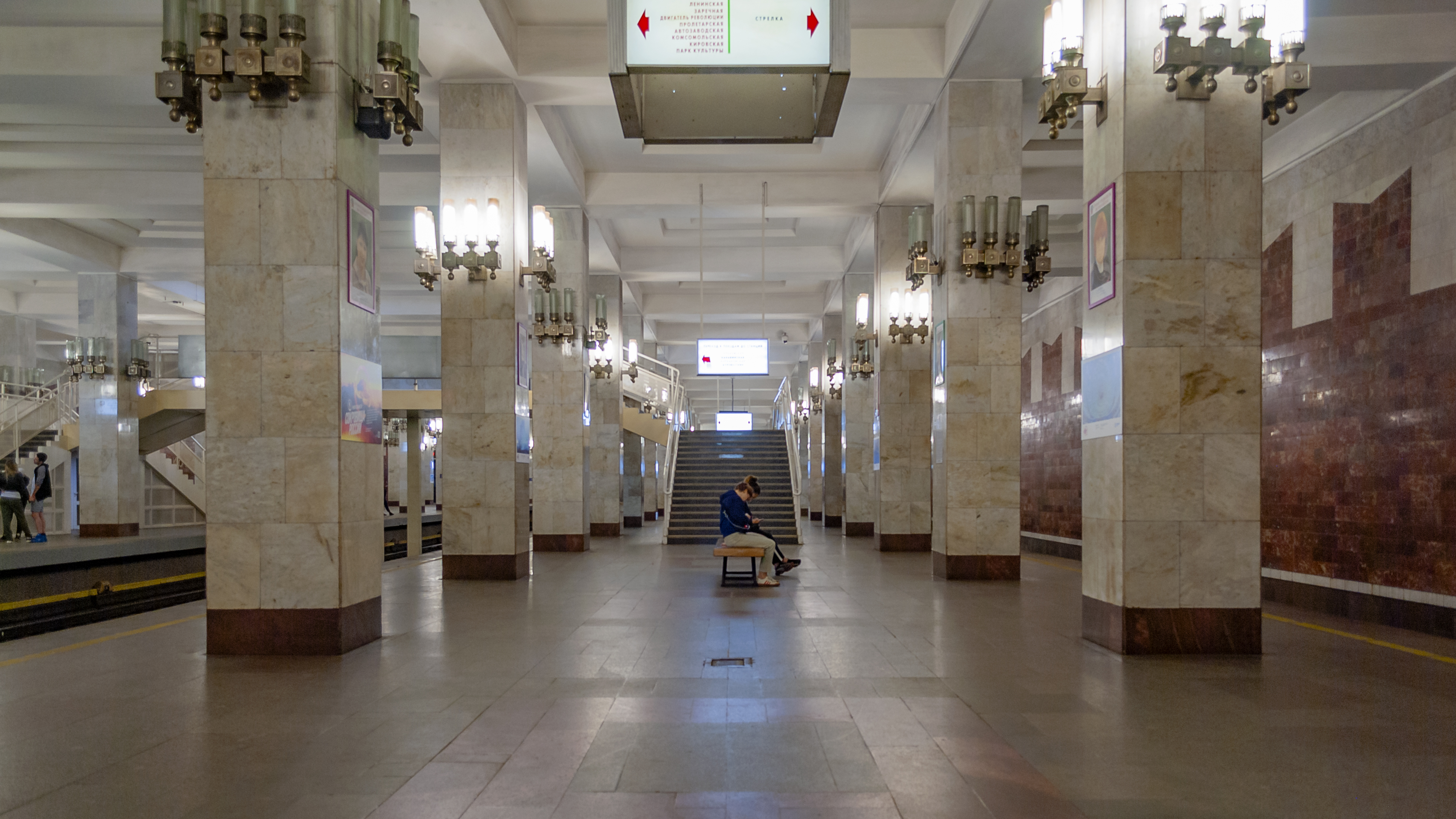 Moskovskaya metro station of Nizhny Novgorod Metro